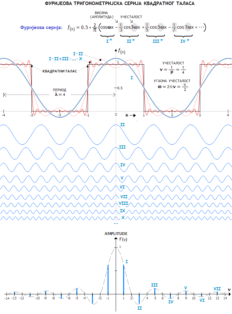 ФУРИЈЕОВА СЕРИЈА